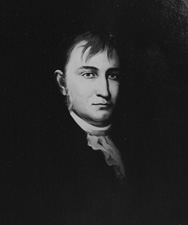 Portrait of Senator Thomas Buck Reed of Mississippi